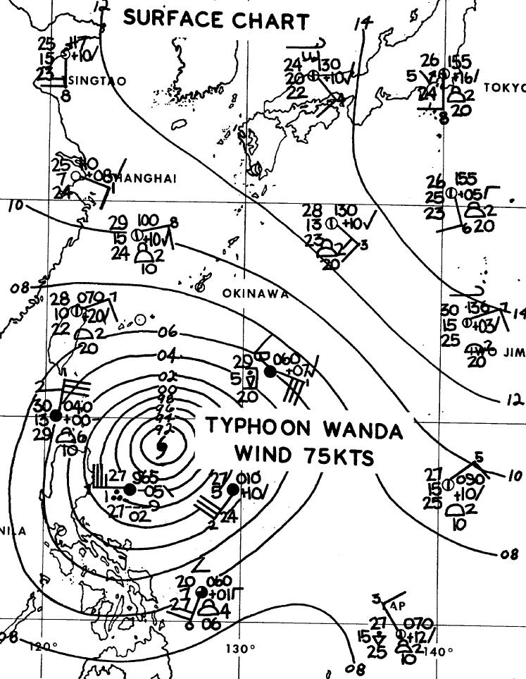 Surface Synoptic Chart of Typhoon Wanda in the western Pacific Ocean in August 1962